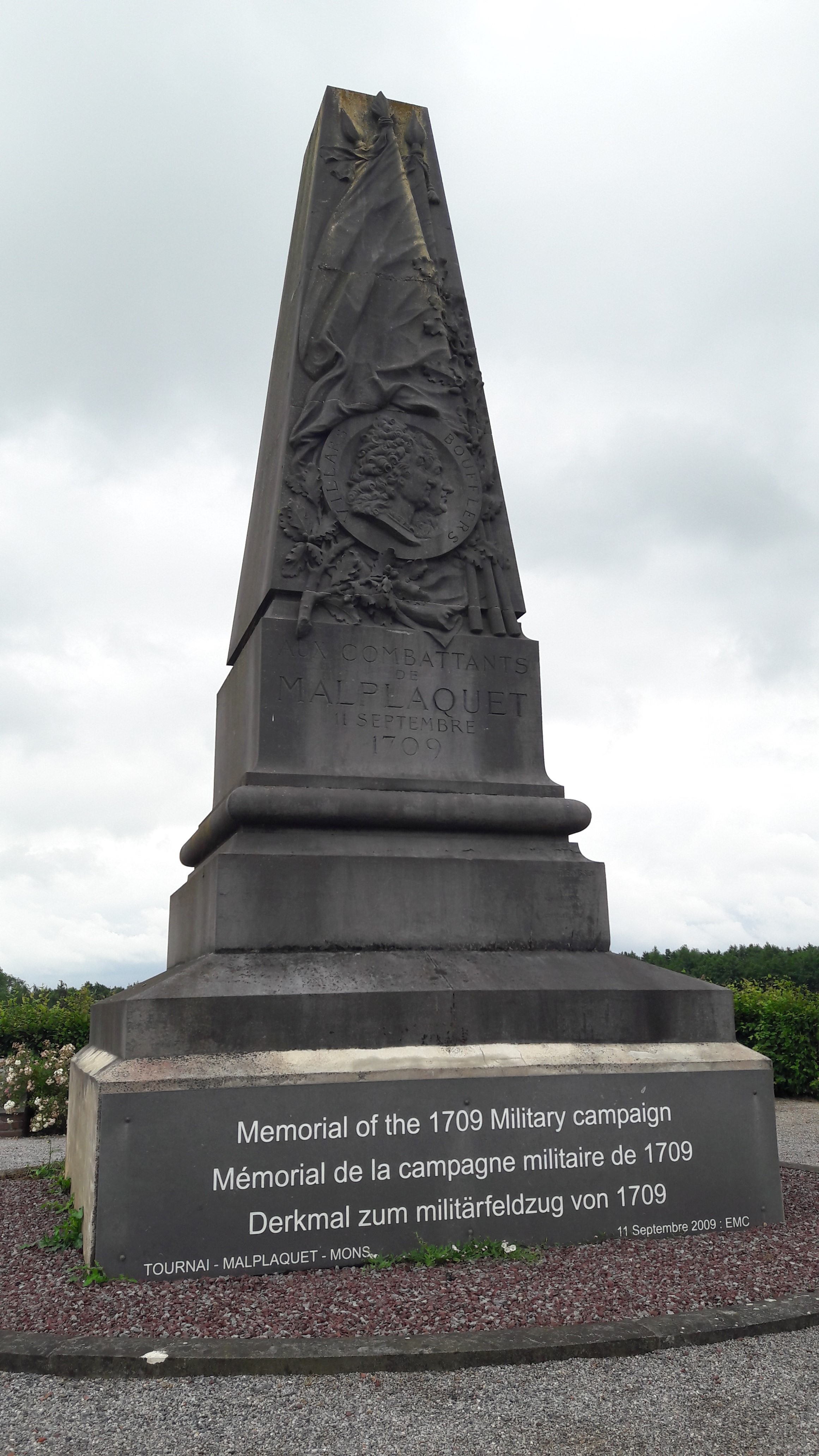 Battle of Malplaquet memorial, Taisnières-sur-Hon near Belgian border